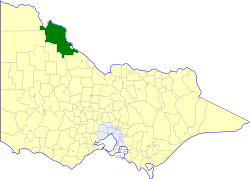 Location of the Shire of Swan Hill within Victoria.